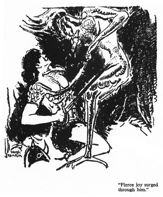 Illustration for Robert E. Howard's "Beyond the Black River" in Weird Tales (June 1935)